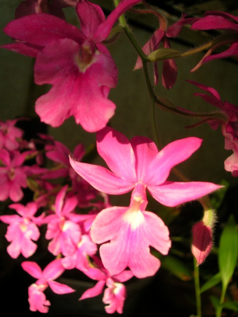 Calanthe rubens (front view)